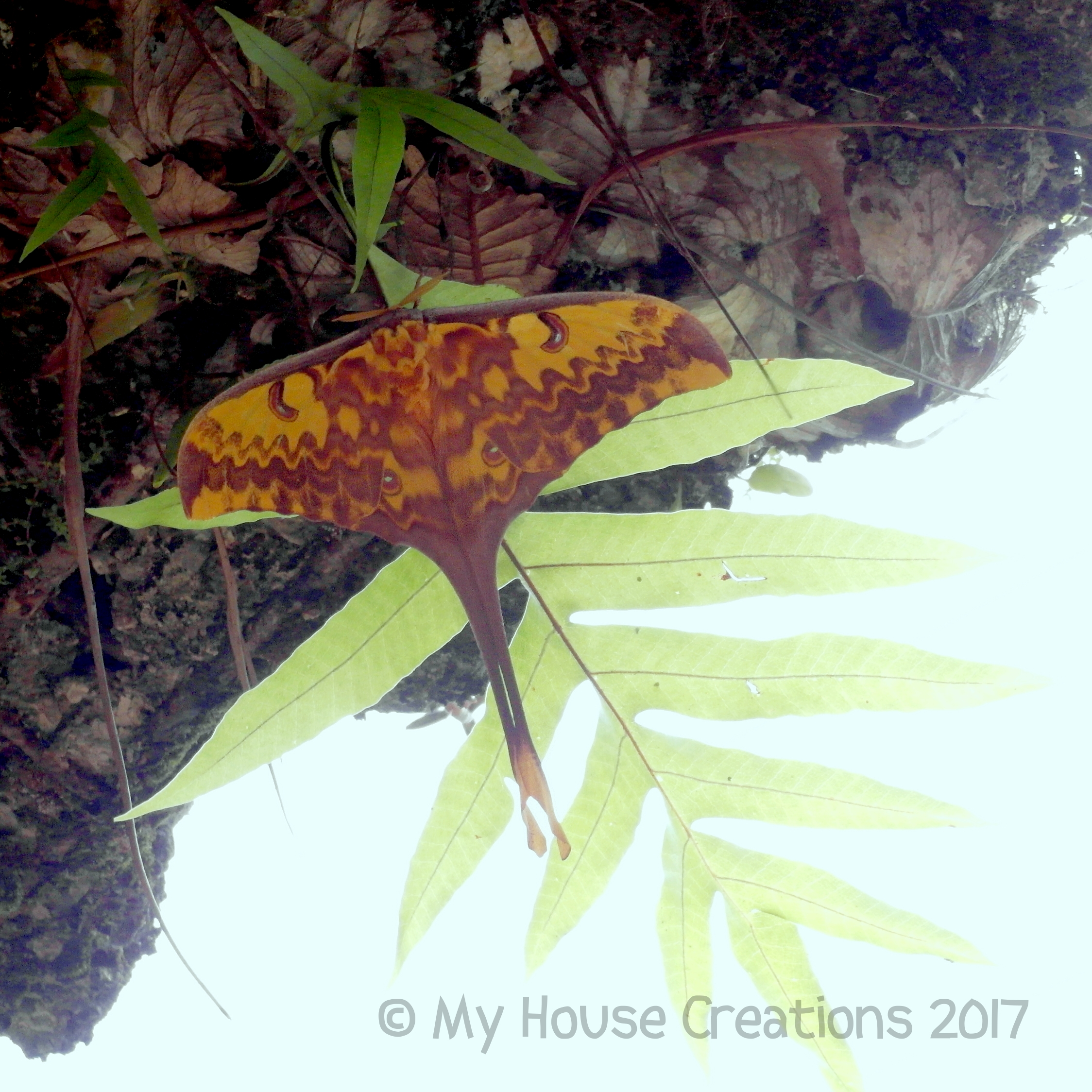 This is a male "Actias groenendaeli timorensis" moth, spotted hanging upside down from ferns growing in crumbling concrete eaves in the Ermera District, Timor Leste. The wingspan is easily 20 cm.